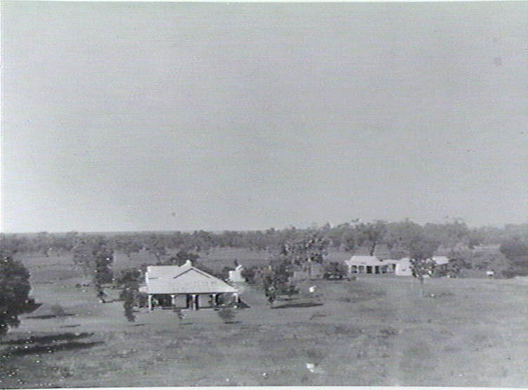 View of the birdum Hotel, dismantled 1952, and other buildings